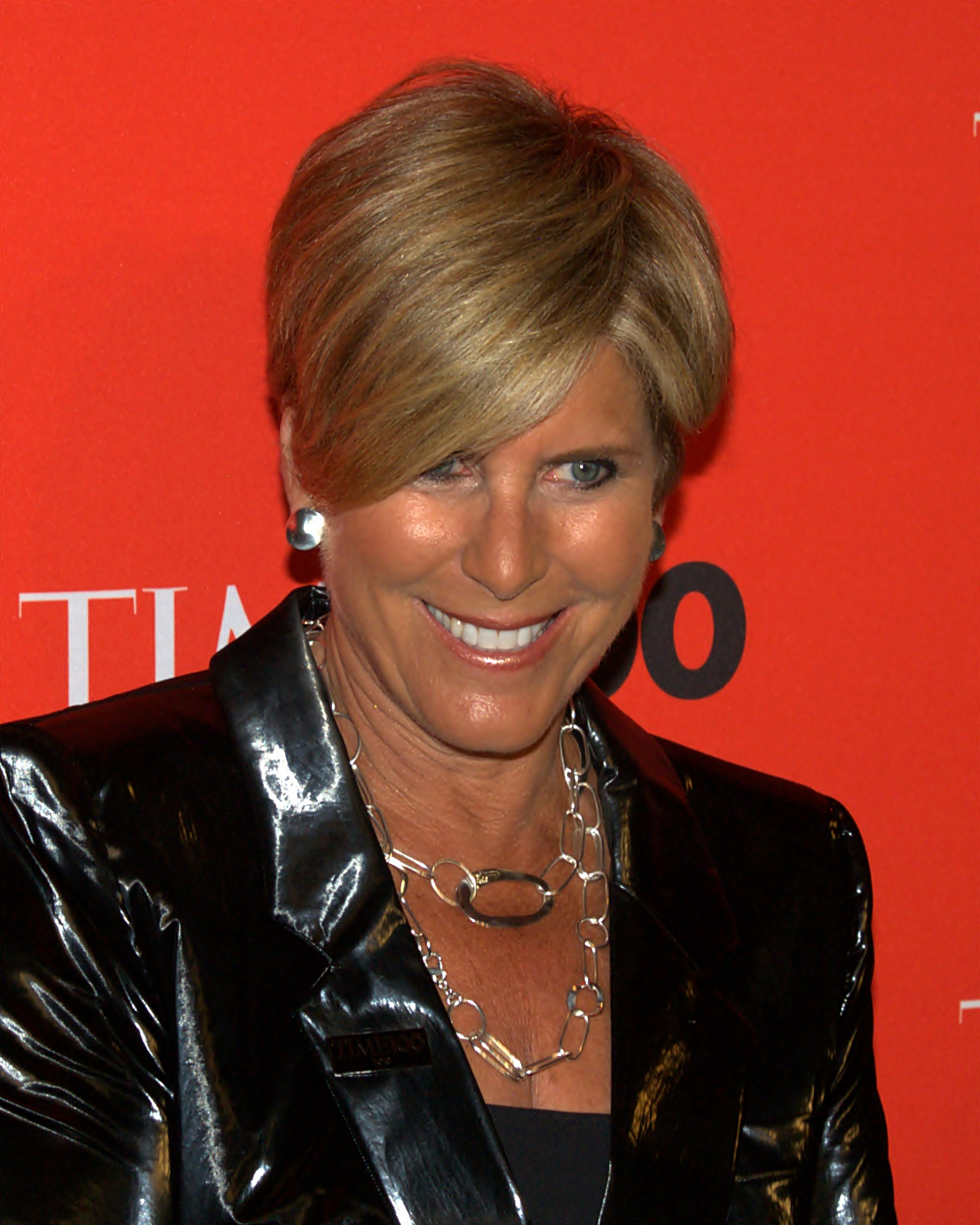 Writer and TV finance expert Suze Orman at the Time 100 Gala, May 3, 2010. Photo by David Shankbone. This photos is licensed under the Attribution 3.0 license, which means it can be used and modified for any purpose only if the author is properly credited where it is used.